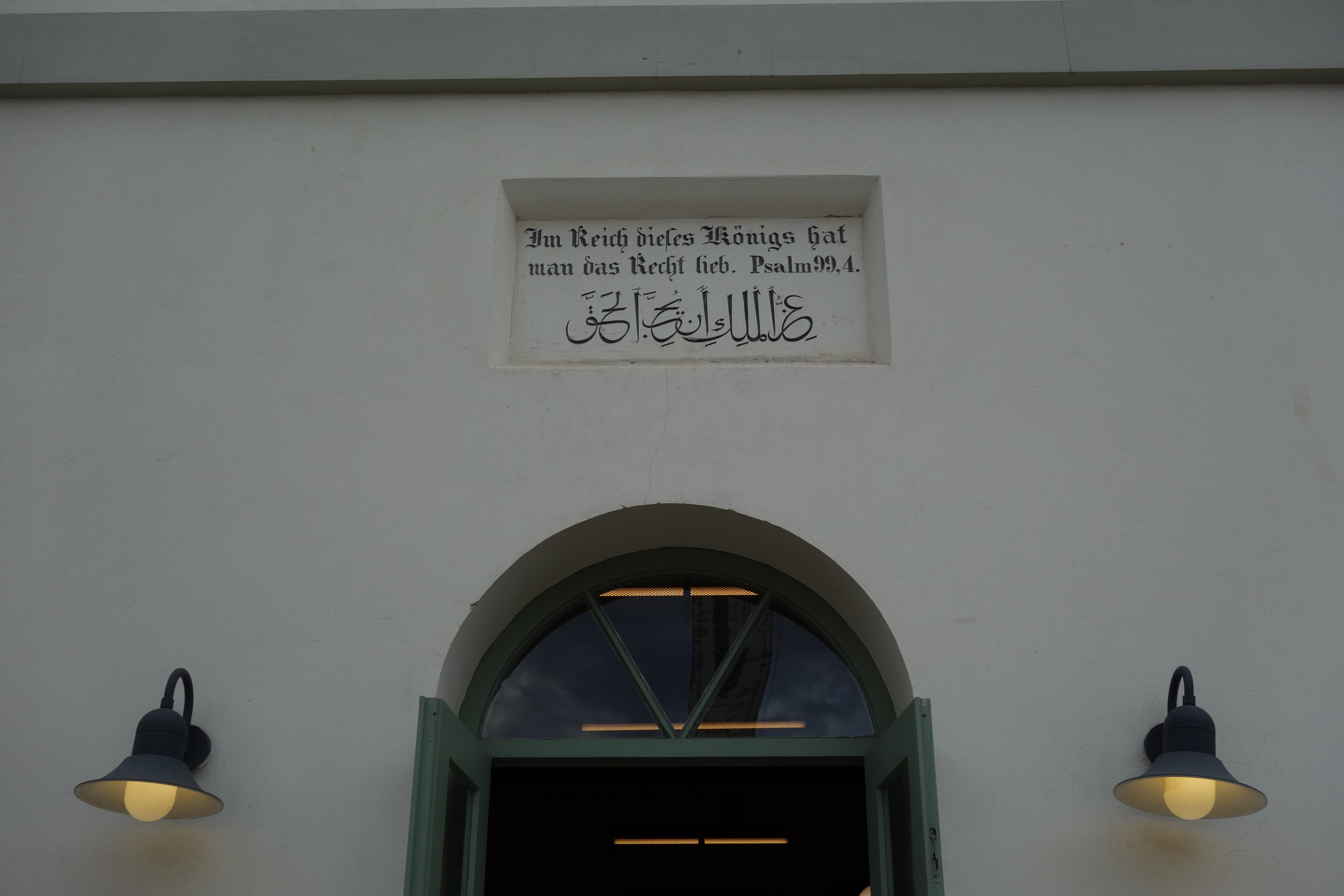 Psalm 99 verse 4 on a building in Tel Aviv. Text in German and Hebrew. "Im Reich dieses Königs hat man das Recht lieb."